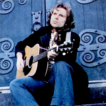 Trade ad for Van Morrison's album Saint Dominic's Preview. To better adapt it to his respective Wikipedia article, the ad was cropped and cleaned in a graphics editing program. The original can be viewed at the source below.